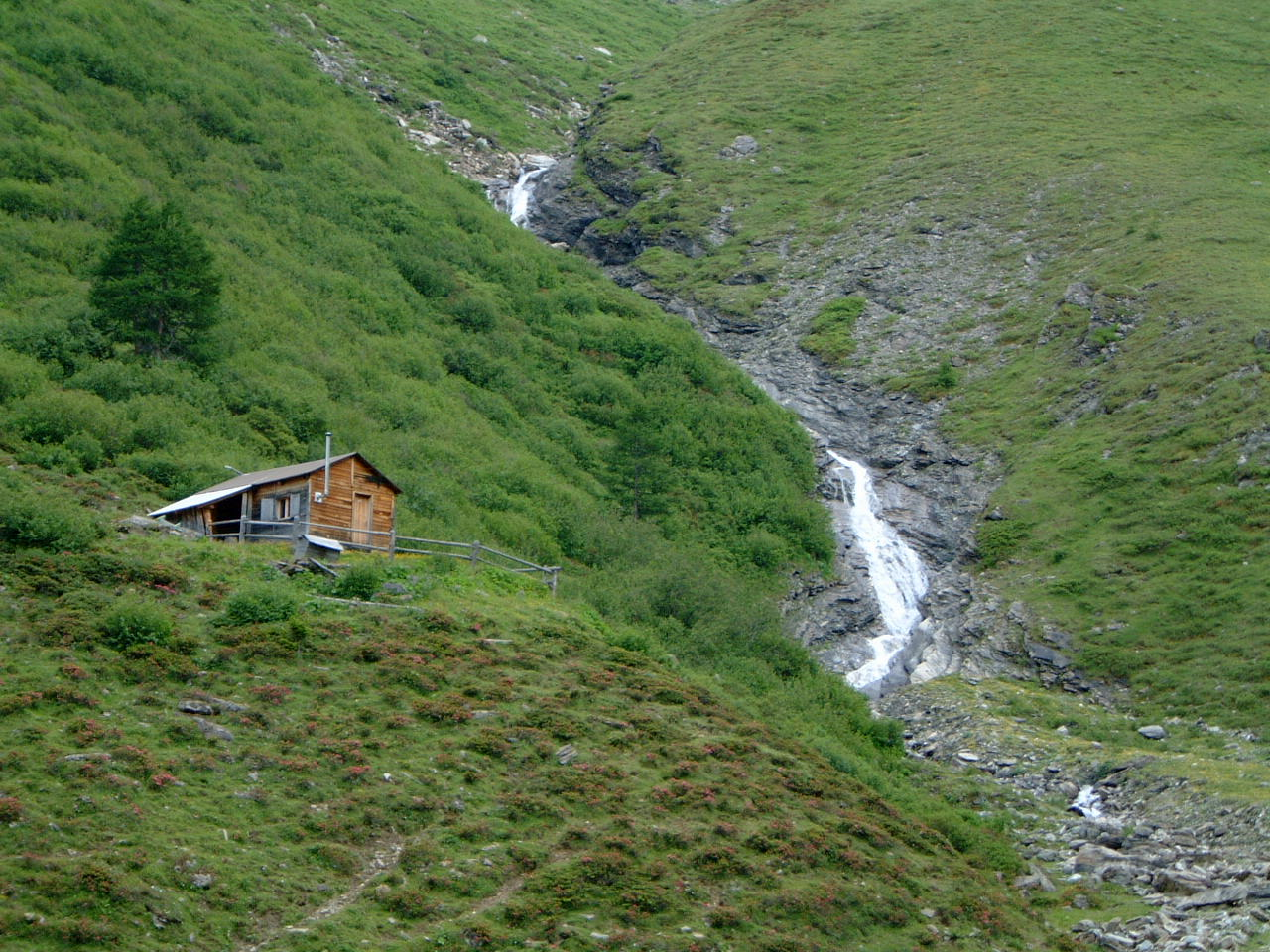 Val Sampuoir (Tschlin): Las Eras